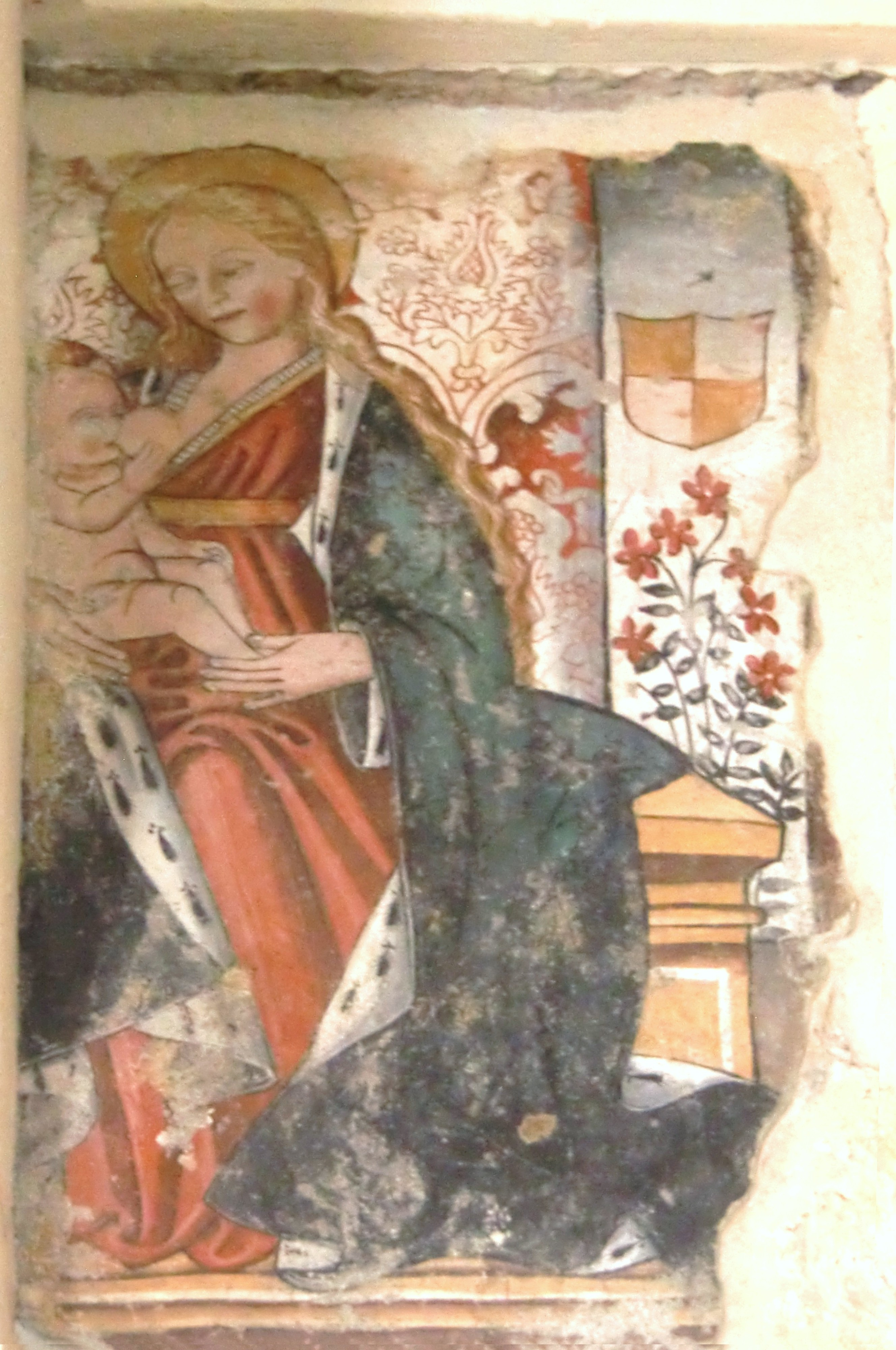 Nursing Madonna, fresco, XV century, San Ferreolo church, Grosso (TO)